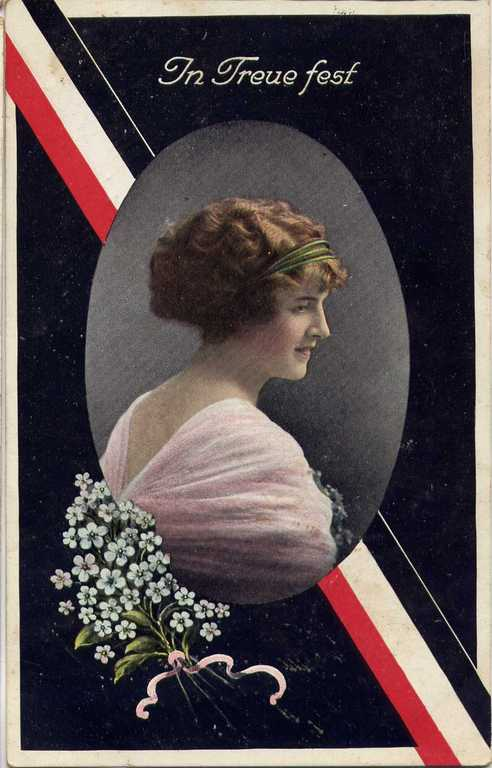 field postcard with motif In Treue fest, with the colours of the German empire, a photograph of a woman in right profile and a bouquet of flowers (white roses?). Sent on 25 January 1916 by Cord Oeckermann from Haste near Osnabrück to his family in Groß Mackenstedt, An Familie Oeckermann in Gross-Mackenstedt Post. Heligenrode The motto In Treue fest was that of the kingdom of Bavaria, and during WWI was used specifically in reference to the loyalty between Germany and Austria, but in this instance, Treue ("loyalty") is suggested to refer to marital fidelity in time of war. There is a variant of this postcard, with the legend Vergissmeinnicht ("forget-me-not") and an image of the same woman in left profile, and the same bouquet (of white roses, in spite of the title, but the woman seems to be holding blue flowers, possibly forget-me-nots) sent by Cord Oeckermann to his family three days later, on 29 January 1916 (europeana1914-1918.eu, contributor W. Holscher). Universität Osnabrück (Historische Bildpostkarten) has a black and white variant of the same postcard, dated February 1915.